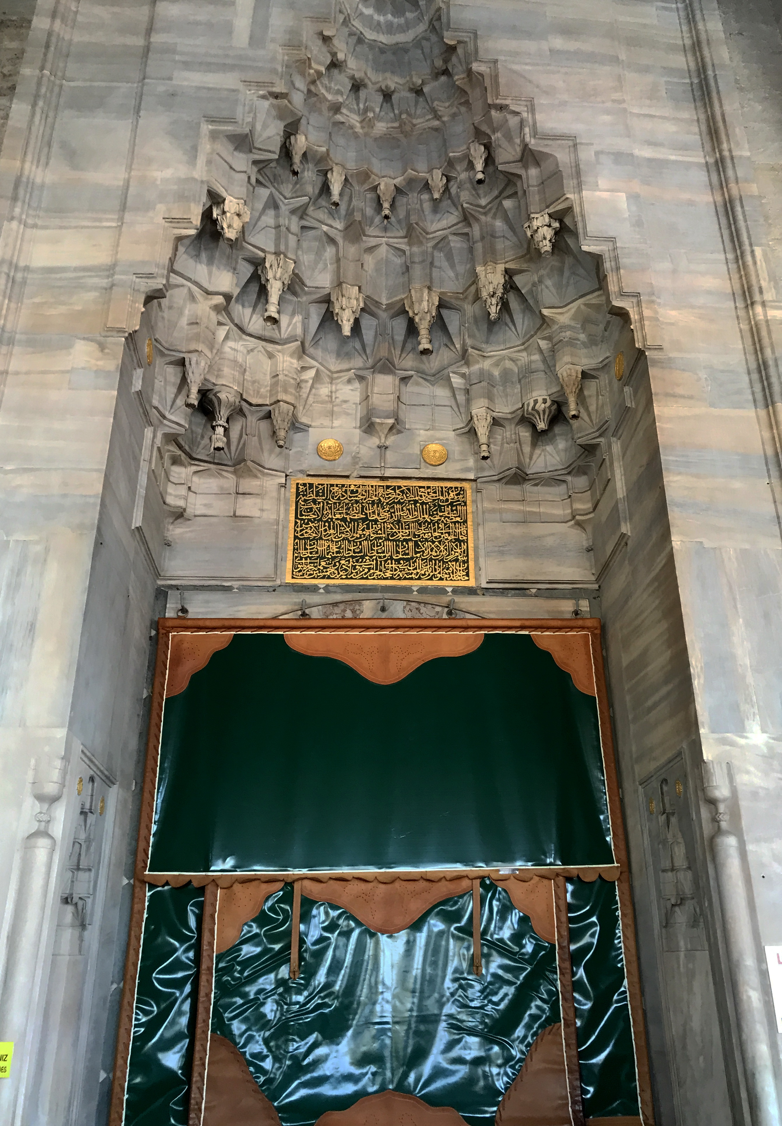 Mihrimah Sultan Mosque (built 1548), is an Ottoman mosque located in the historic center of the Üsküdar municipality in Istanbul, Turkey. It is the first of two mosques built by Mihrimah Sultan, daughter of Sultan Suleiman the Magnificent and wife of Grand Vizier Rüstem Pasha. It was designed by Mimar Sinan and built between 1546 and 1548.